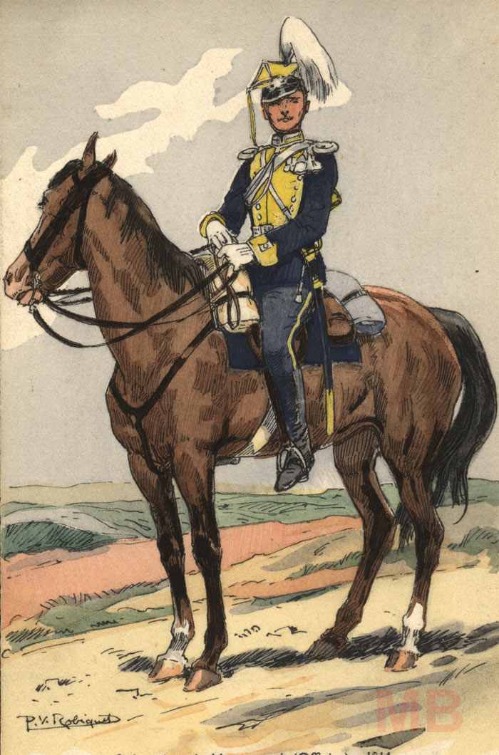 Uniforms of the 8th Voznesensky Uhlan Regimen; 1914 Postcard.